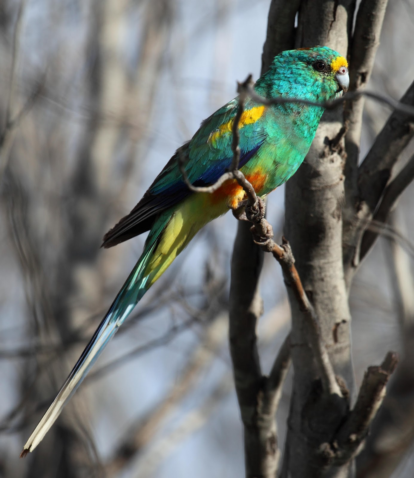 Mulga Parrot (Psephotus varius), Northern Territory, Australia